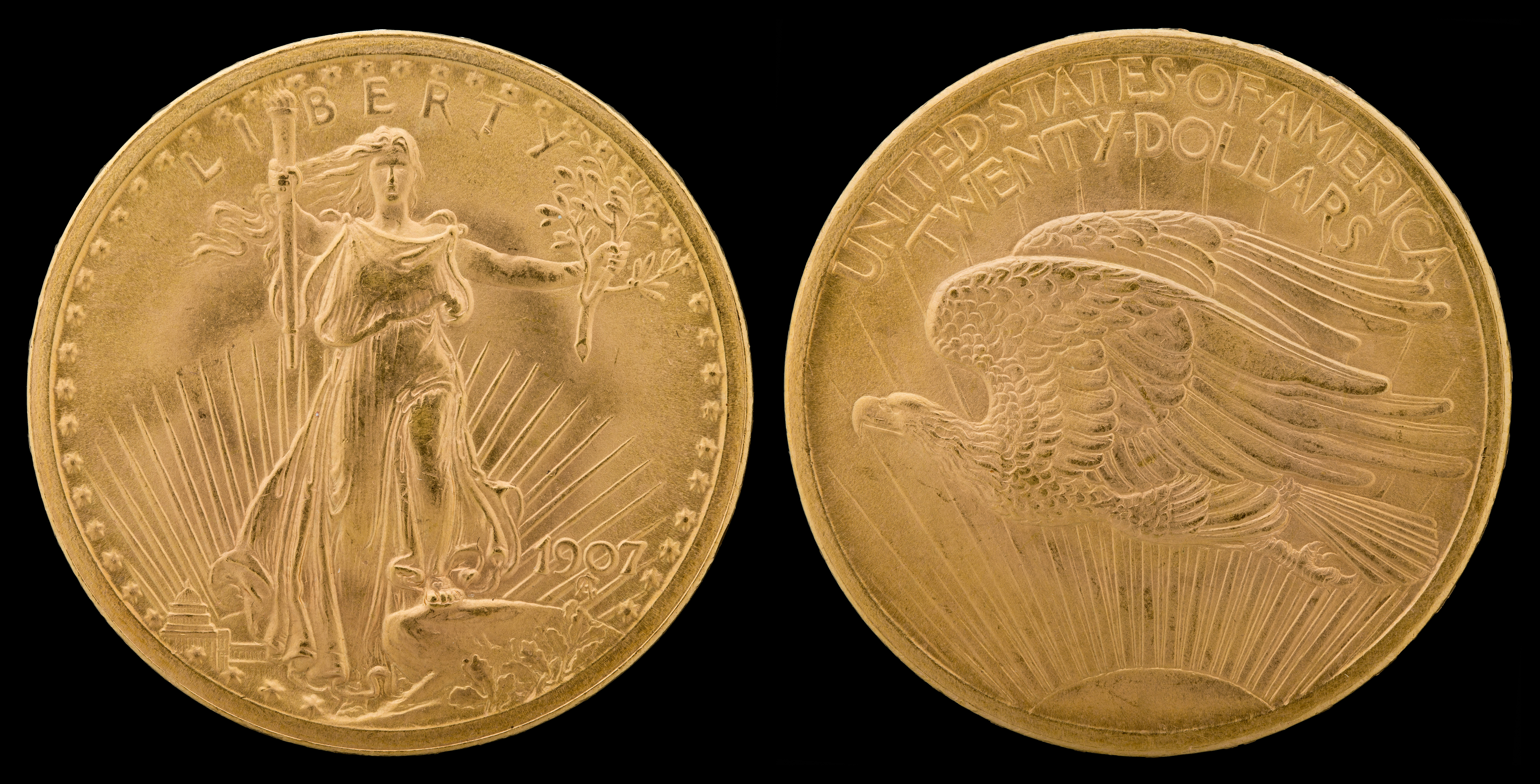 1907 G$20 Saint Gaudens (Arabic)Gold (fineness 0.9000), 34mm, 33.436g, designed by Augustus Saint-GaudensJN2015-6768-69